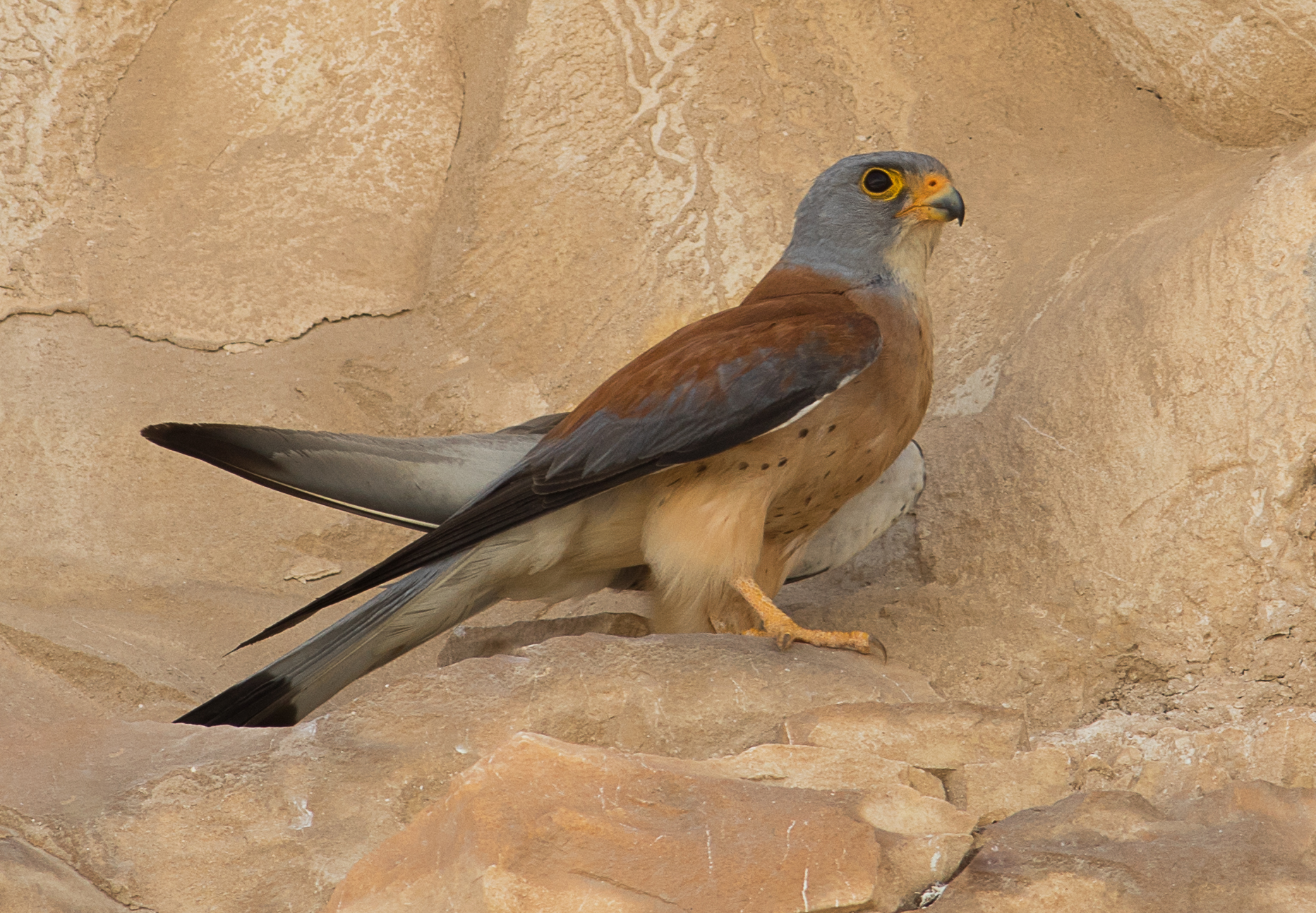 Lesser kestrel (Falco naumanni), Male. Israel